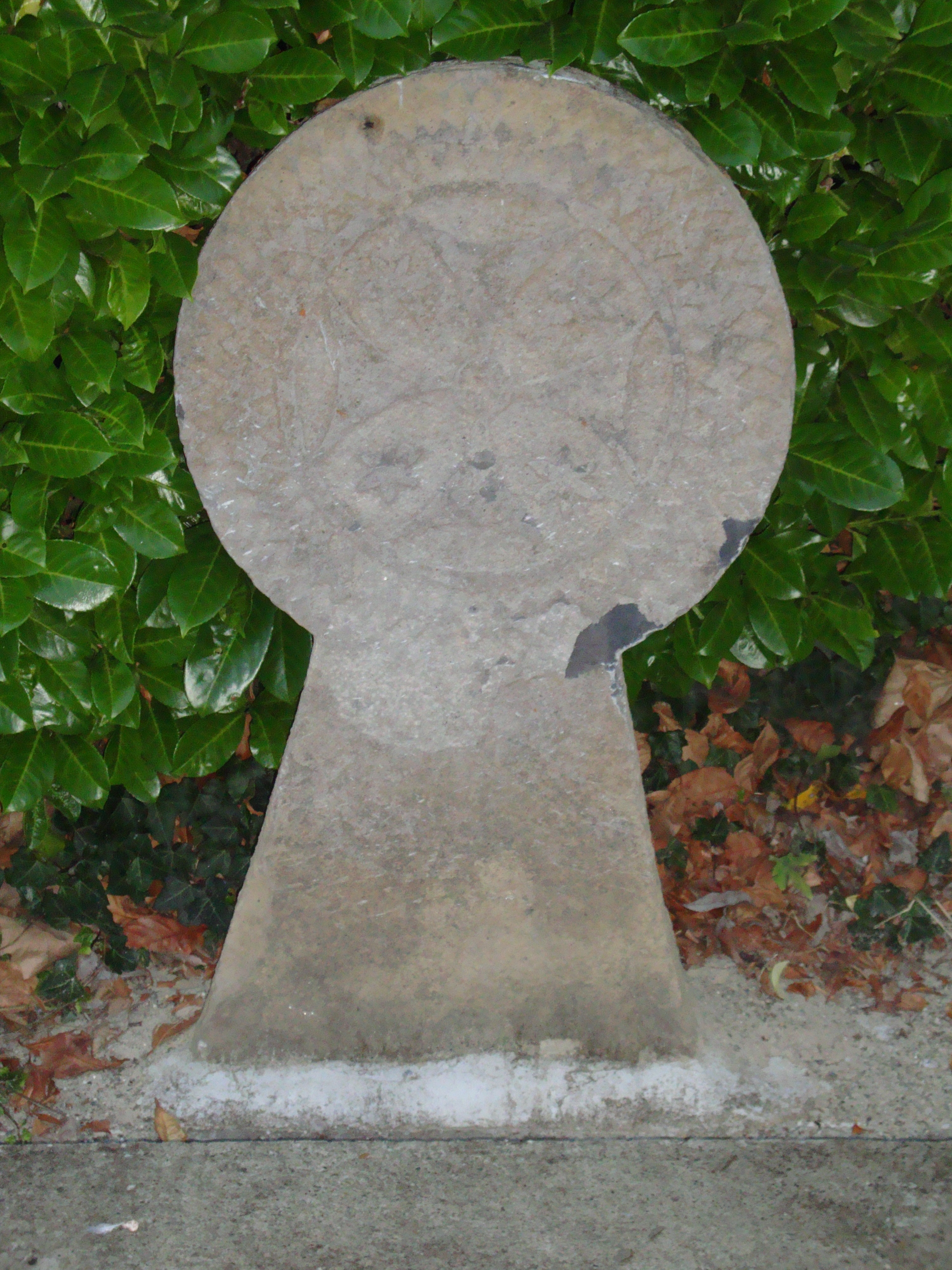 Aroue (Aroue-Ithorots-Olhaïbe,_Pyr-Atl,Fr) one of the few discoidal steles (basque steles) in the churchyard